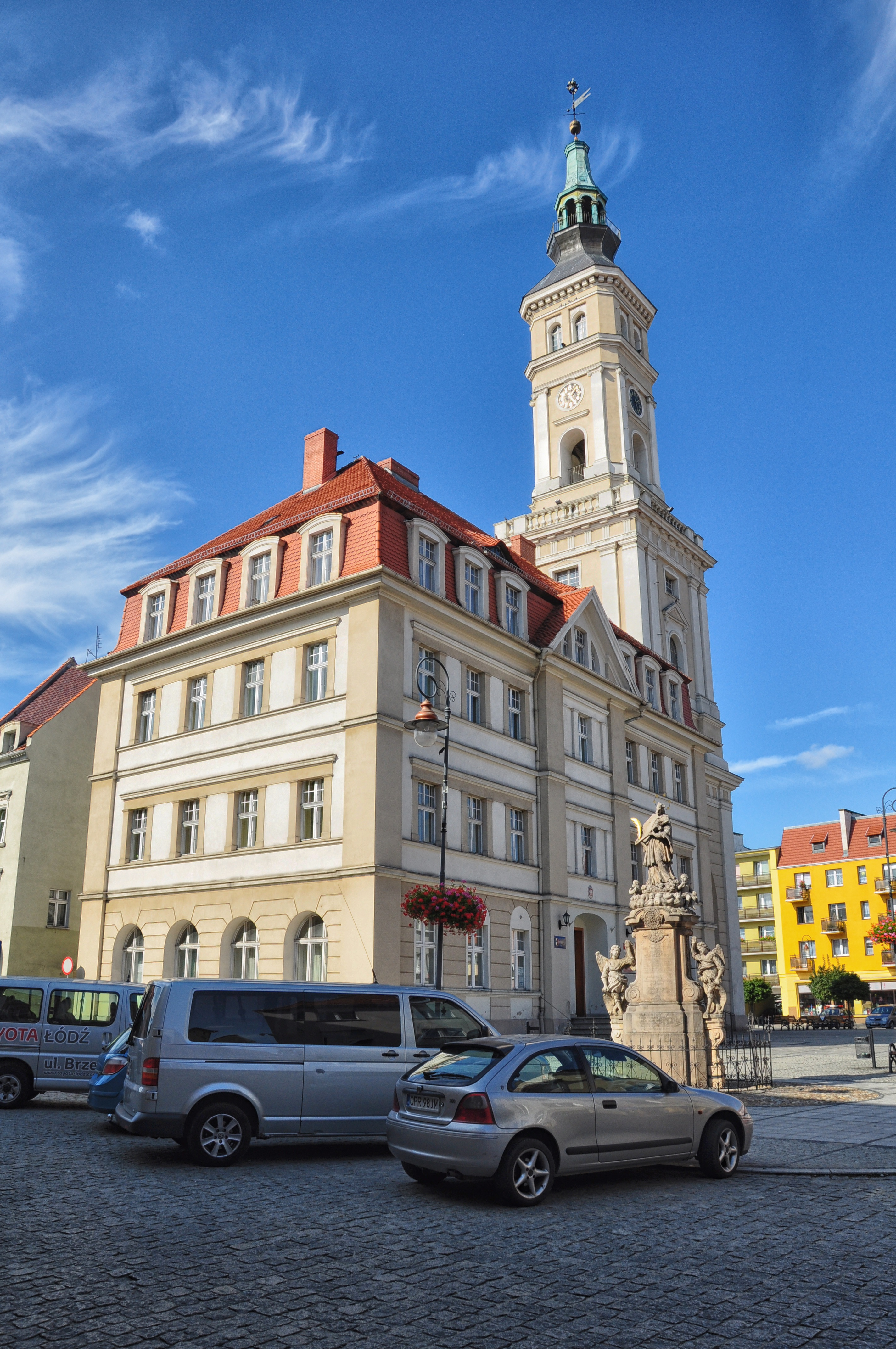 Town hall in Prudnik.